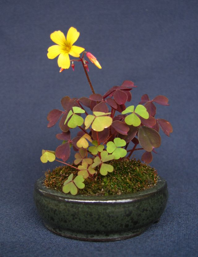 Kusamono made of two species of Oxalis planted together with a moss.